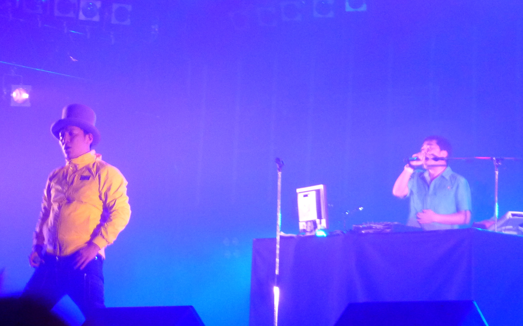 J-pop group "Denki Groove" (at "Countdown Japan" music festival.)